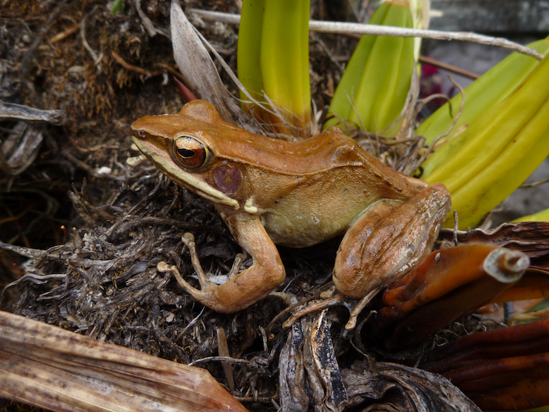 Hylarana florensis in Lombok (Lesser Sunda Islands), Indonesia